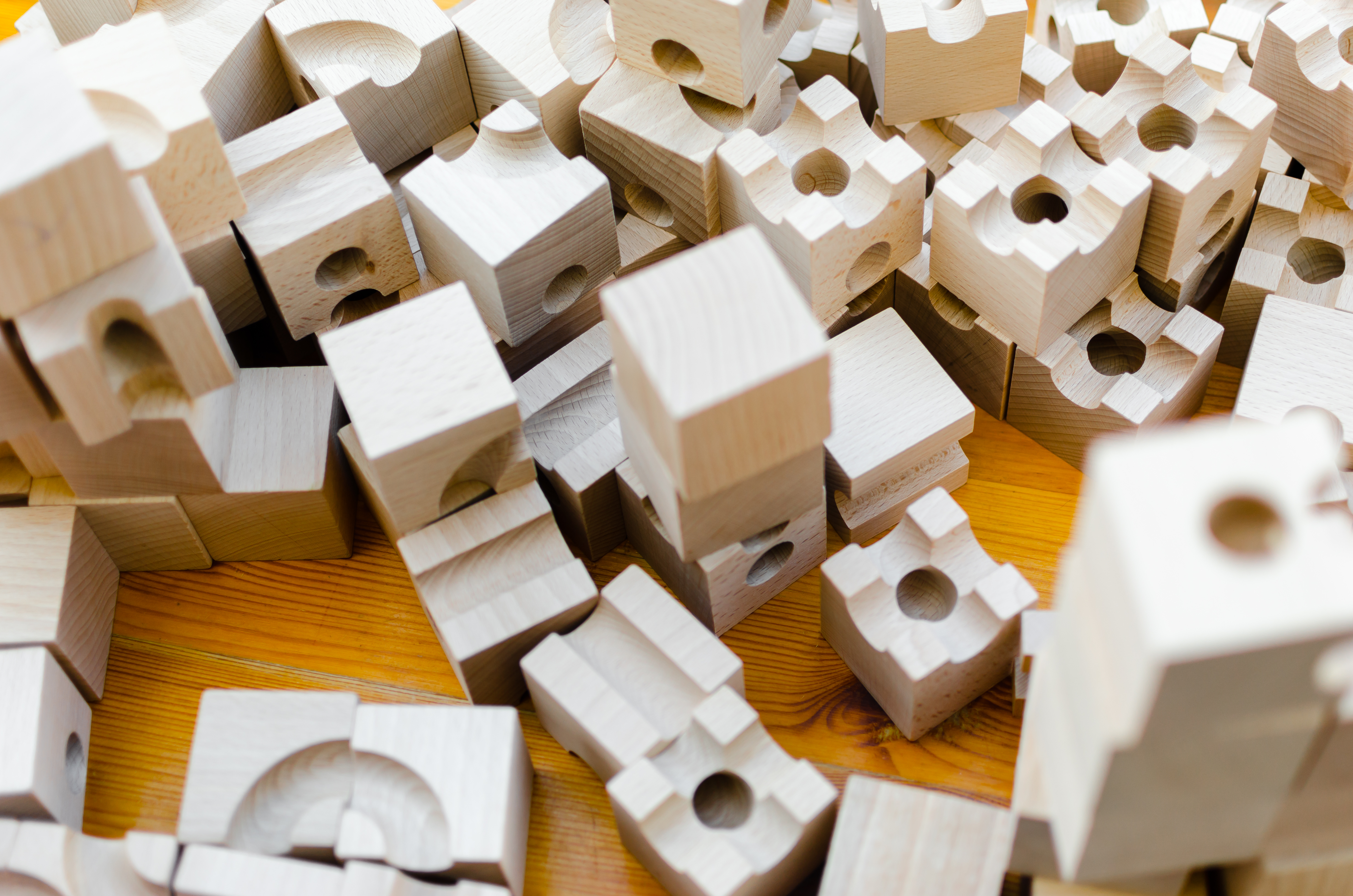 Cuboro cubes